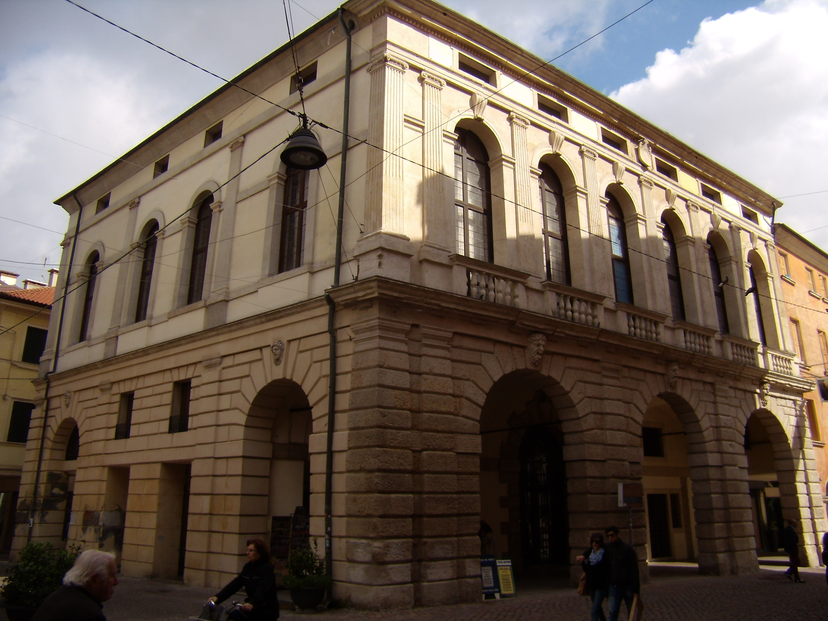 Palazzo Roncale (Rovigo) by Michele Sanmicheli